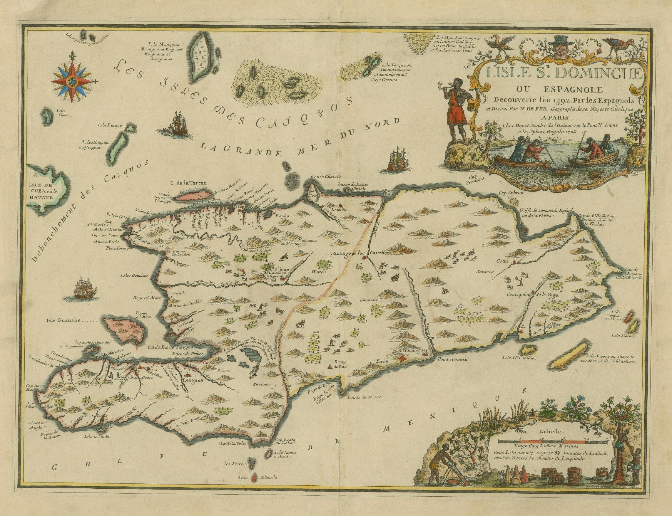 Map of the island of Hispaniola, or Saint Domingue, which contains present-day Haiti and the Dominican Republic.